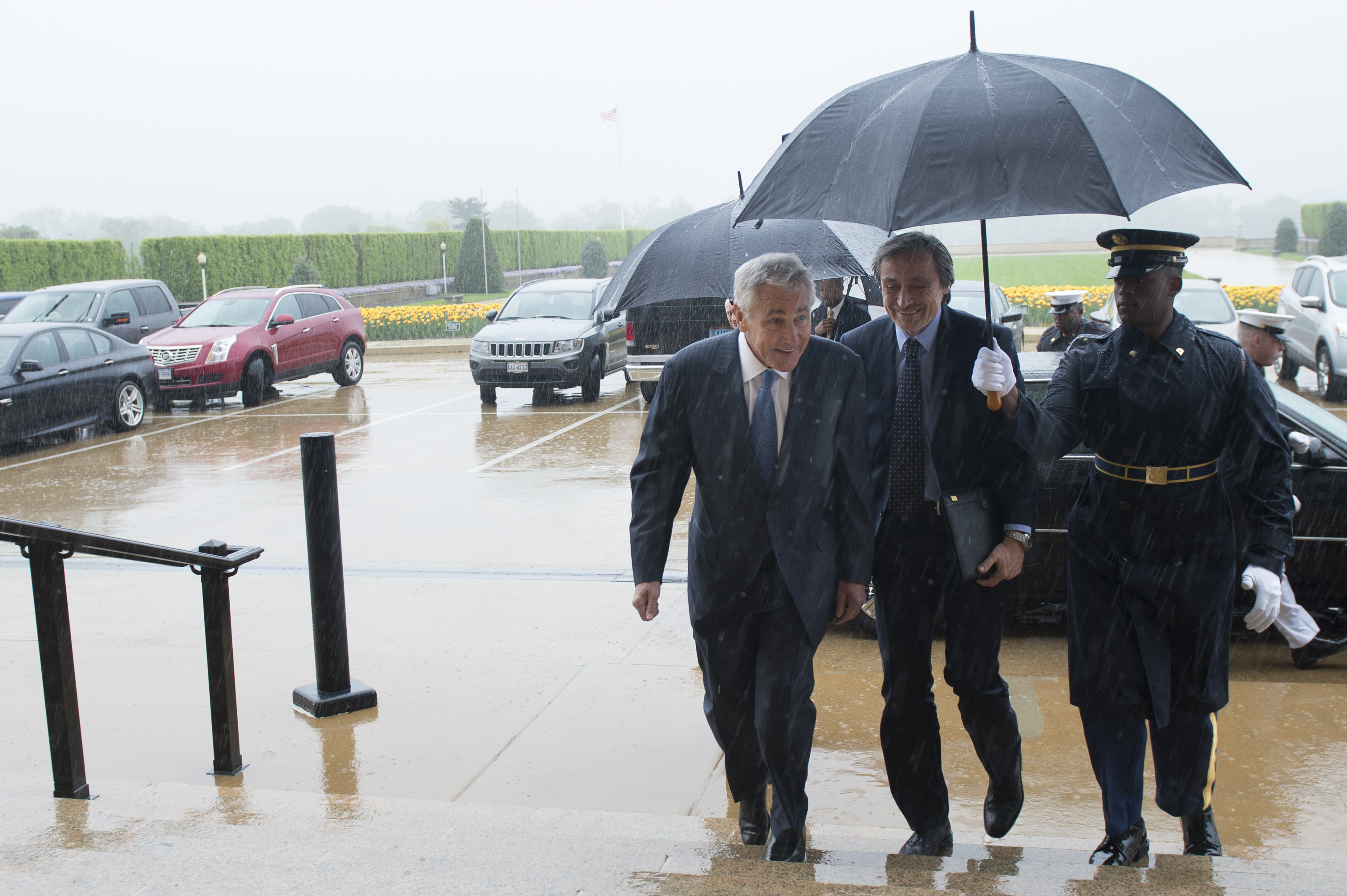 U.S. Defense Secretary Chuck Hagel hosts an honor cordon to welcome the Czech Republic's Defense Minister Martin Stropnicky at the Pentagon, April 29, 2014. The two defense leaders met to discuss issues of mutual importance.